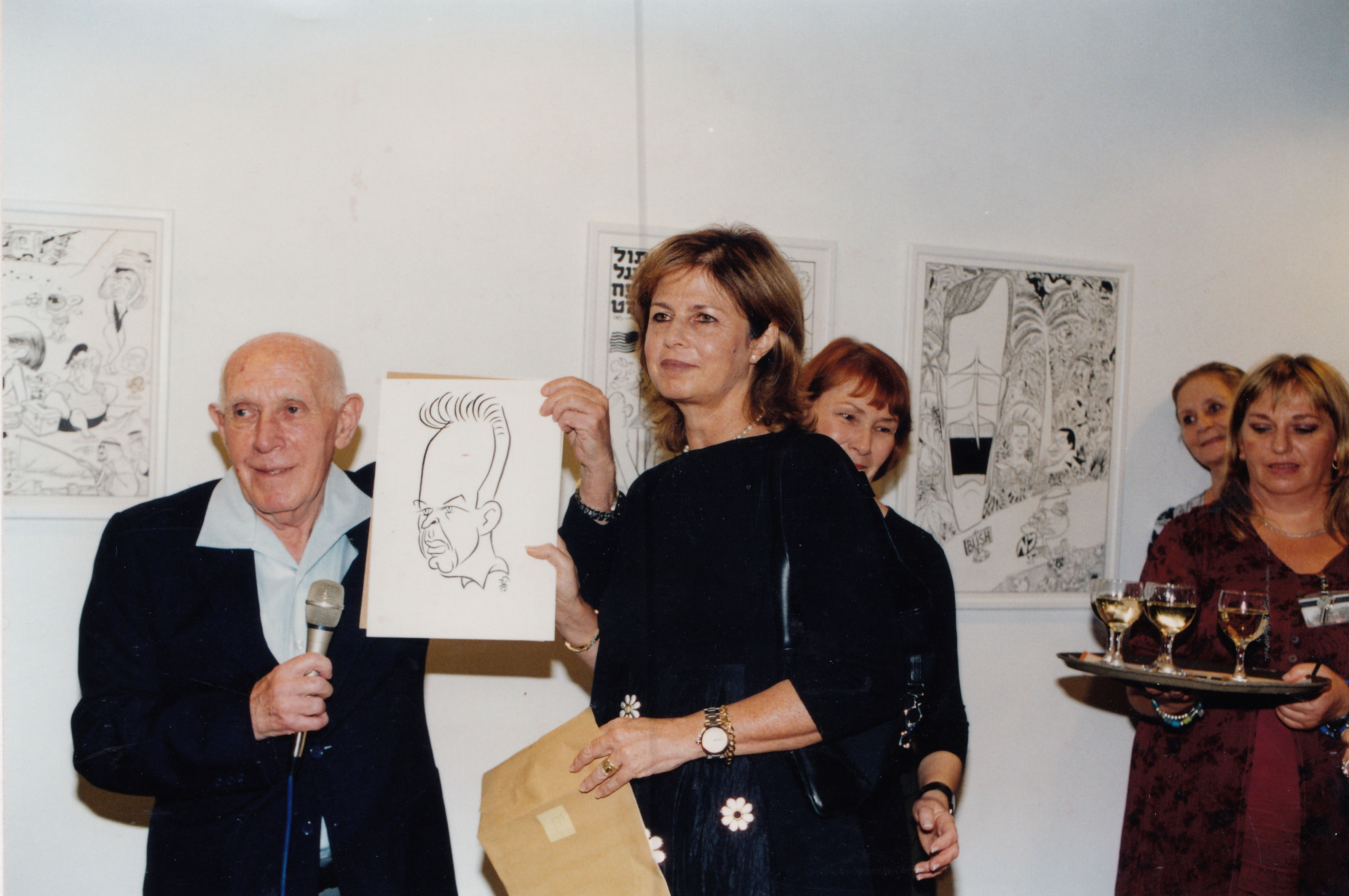 Zeev